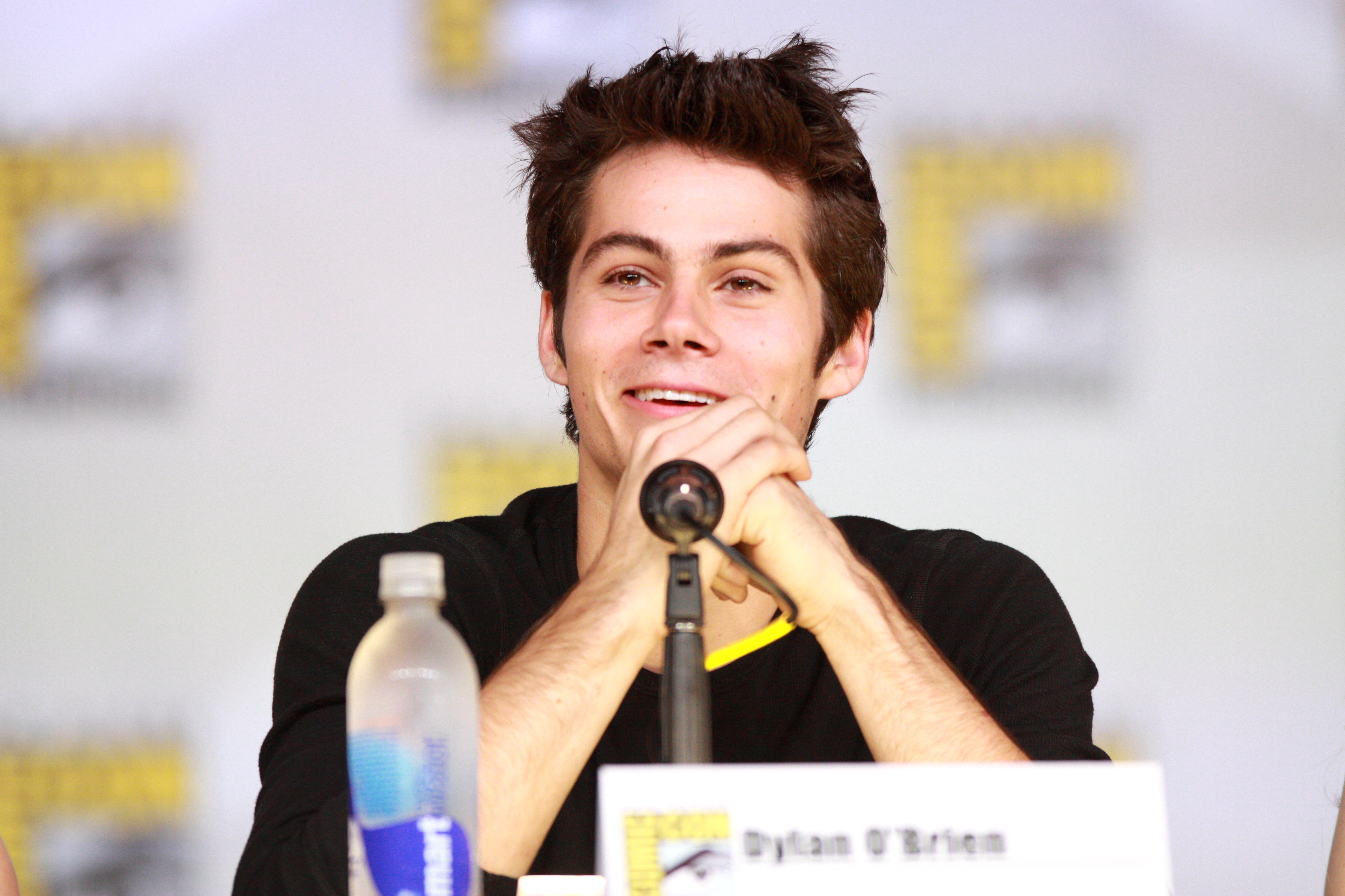 Dylan O'Brien speaking at the 2013 San Diego Comic Con International, for "Teen Wolf", at the San Diego Convention Center in San Diego, California.